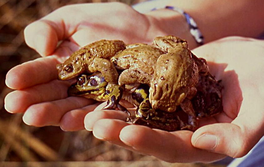 Clew of three male Common Toads (Bufo bufo) and one big Edible Frog (Pelophylax kl. esculentus). The frog is in trouble – the toads are trying to “mate” with him obstinately. They are so much full of sexual hormones that they don’t see their error. Picture recorded in northern Germany